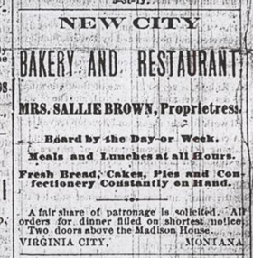 Newspaper ad for Sarah Gammon Bickford's business New City Bakery and Restaurant, Virginia City, Montana, circa 1880-1881, probably published in The Madisonian newspaper.